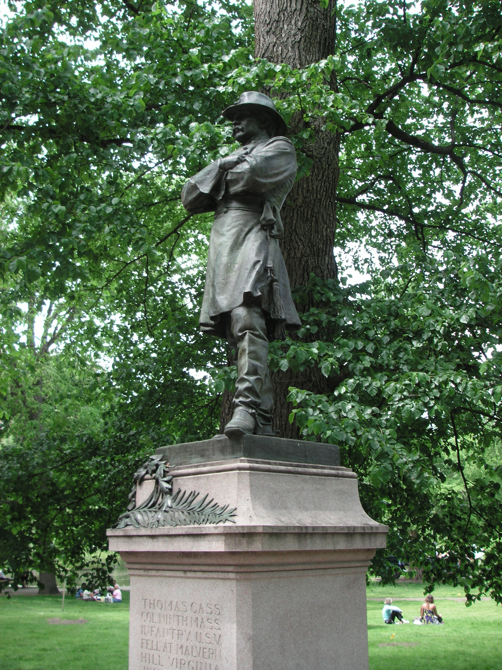 Statue of Colonel Thomas Cass, the commander of the Ninth Regiment Massachusetts Volunteers, which served in the American Civil War from 1861 to 1864. The statue stands on the south side of the Boston Public Garden.